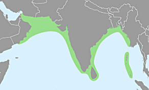 Ocypode brevicornis distribution map